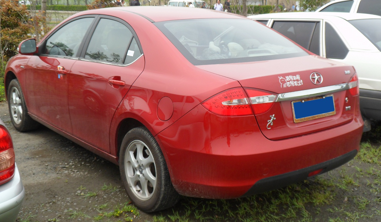 JAC Heyue photographed in Anting, Shanghai municipality, China.